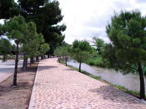 Rio Azuer